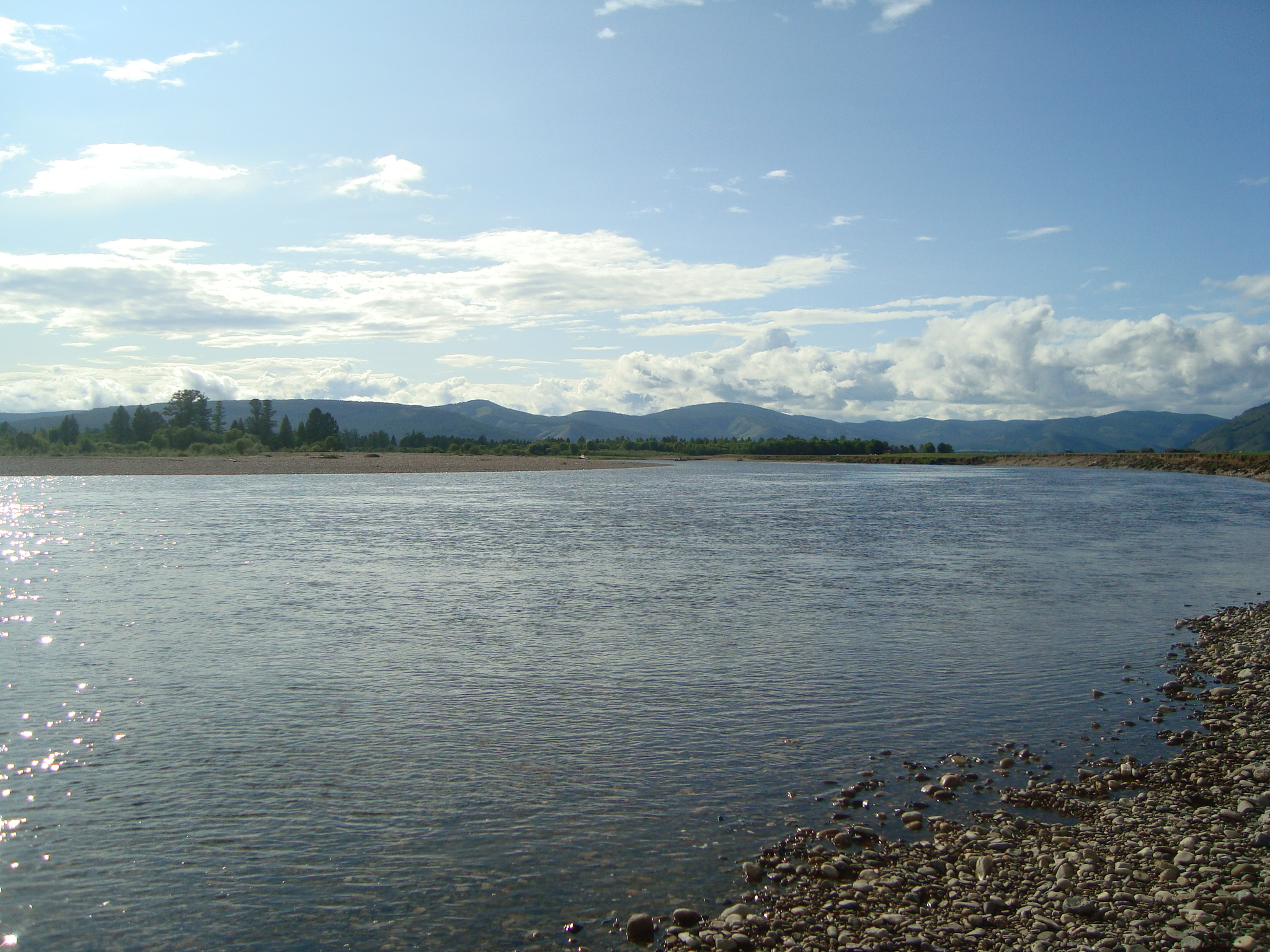 Üür River Монгол: Үүрийн гол